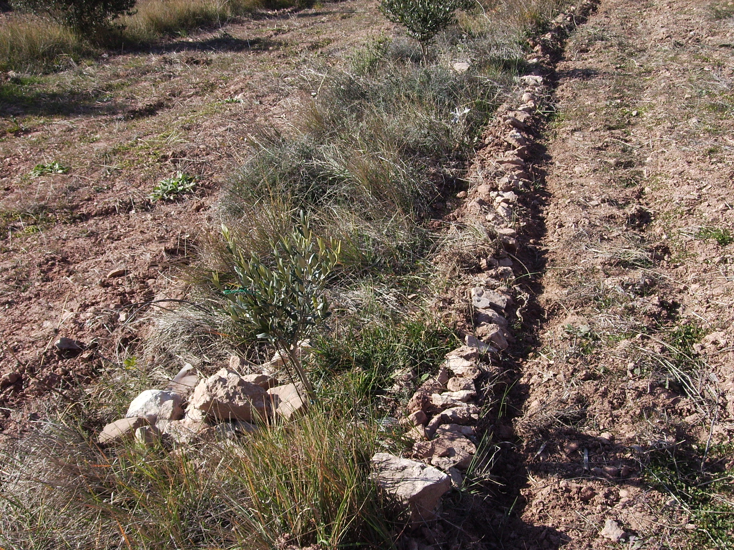 Stone countur line (cf. contour bunding) in young olive trees to catch more rain water and reduce soil erosion. Castelltallat, Catalonia